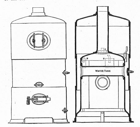 Fig. 153 Vertical boiler Vertical cross-tube boiler